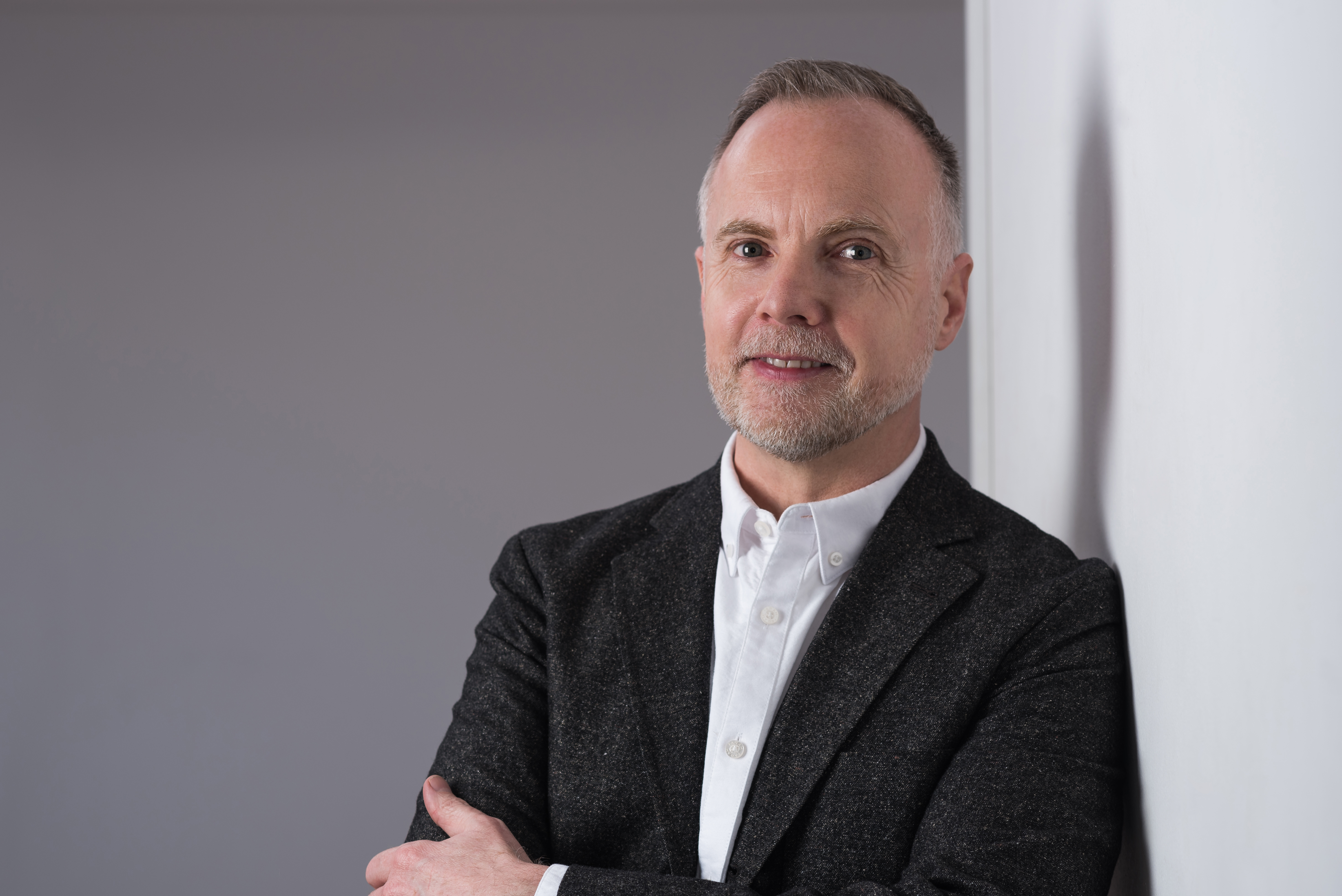 Photograph © Andrew Mason